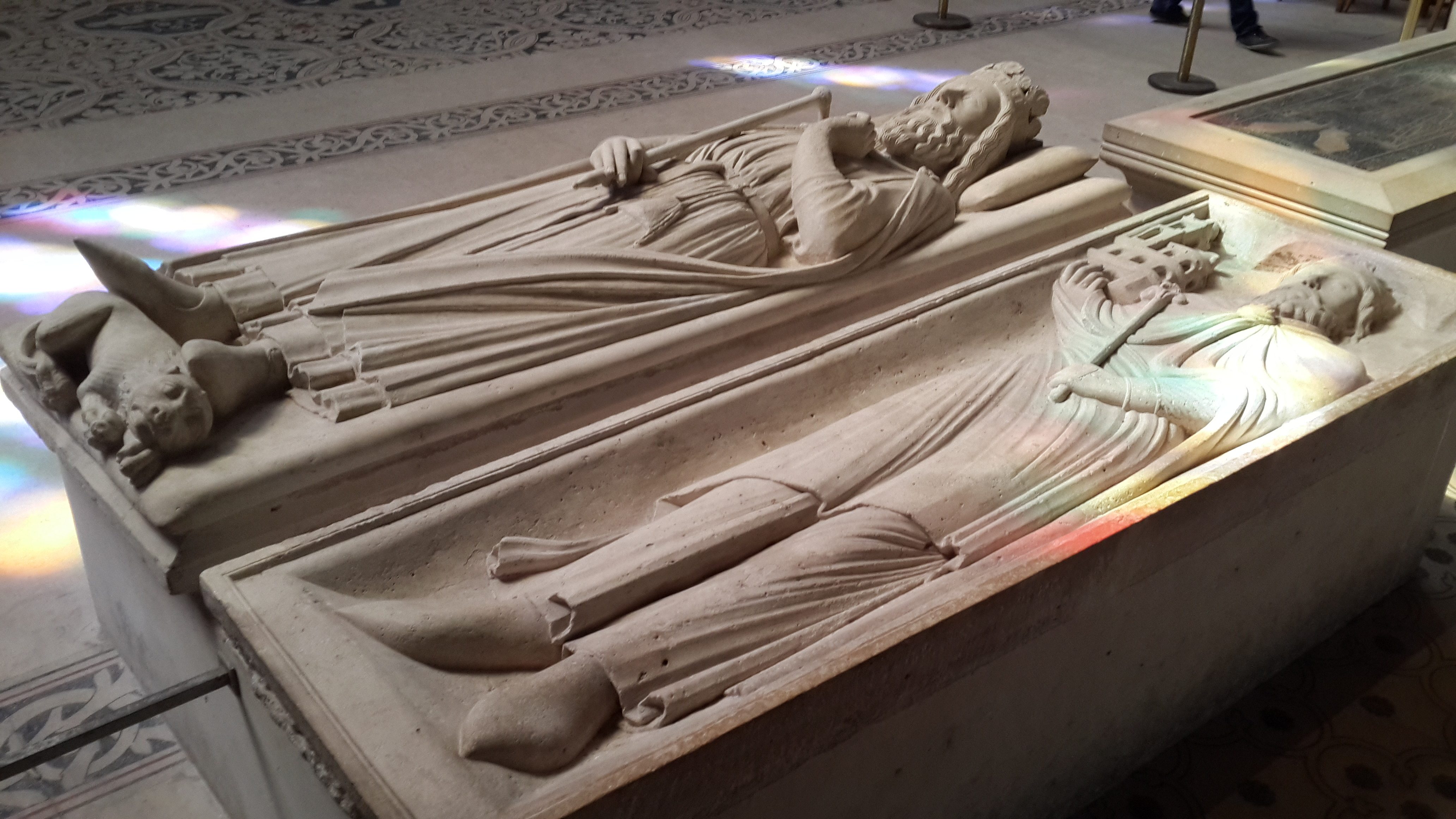 Tombs of Clovis I (far from the camera) and his son Childebert I